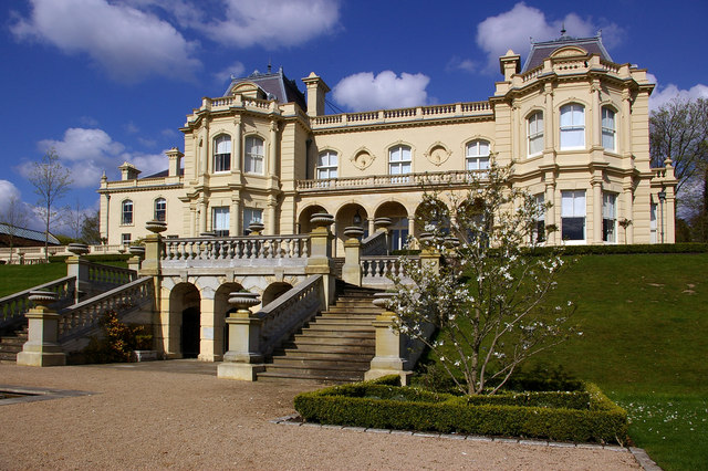 Cherkley Court. Cherkley Court was built c 1870. It was rebuilt in 1893 in the style of a French chateau after fire damage. In 1910 it was bought by William Aitken, the 1st Lord Beaverbrook, soon after he entered parliament. Many famous guests were entertained here by Lord Beaverbrook, including Rudyard Kipling, Harold Macmillan and Winston Churchill. It has been extensively restored by the Beaverbrook Foundation and the gardens are now open to the public, with the house available for private functions. The house is grade II listed - for listing particulars The steps and balustrade are separately listed - The three arches below the balustrade lead into the grotto - see 1257535, 1257537 and 1257541.